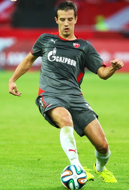 Vukasin Jovanovic